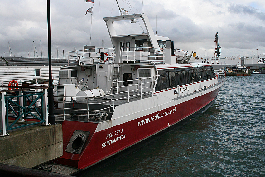 High speed catamaran Red Jet 1 at Town Quay